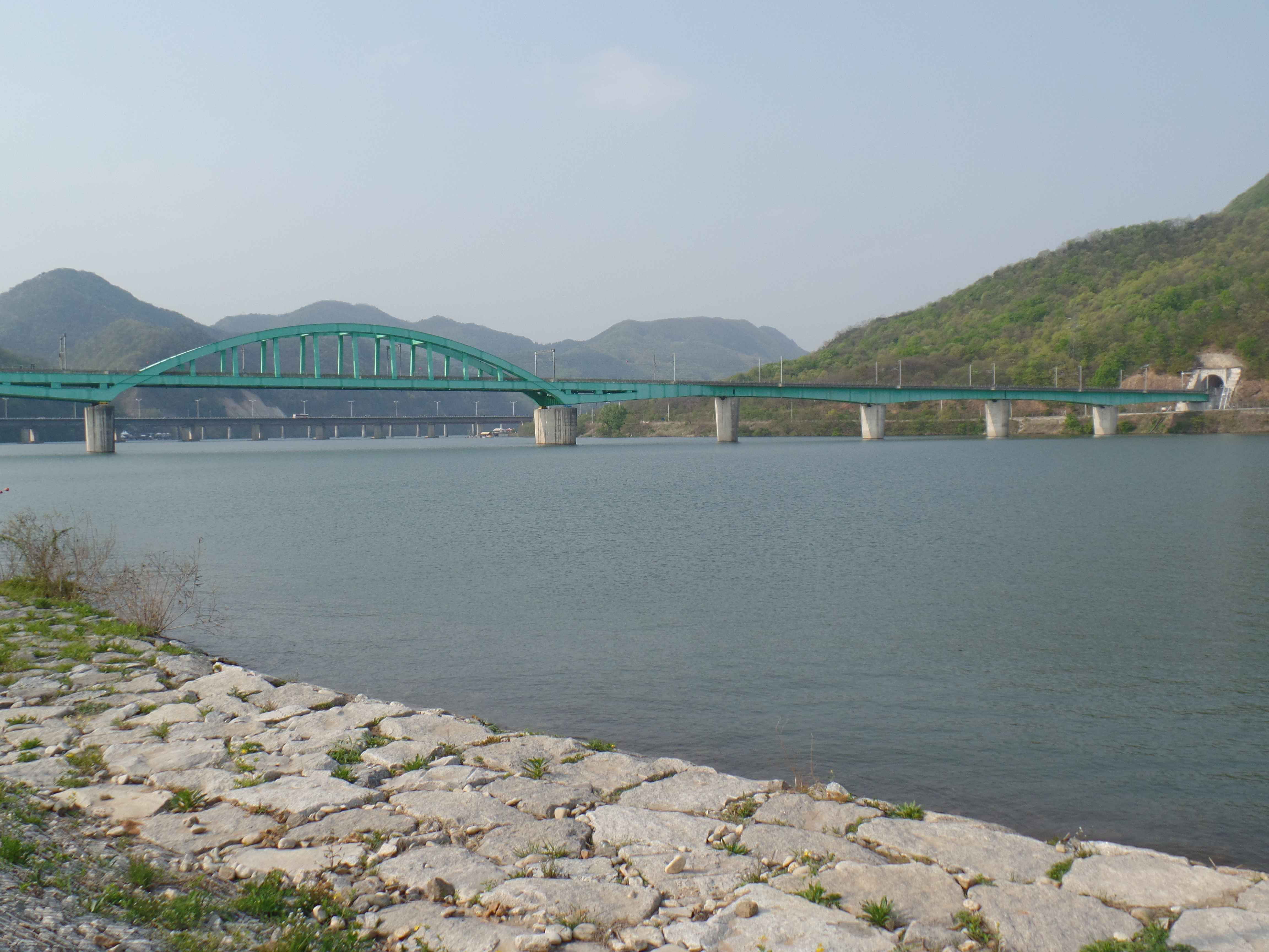 Gyeongchun Line Gapyeong Bridge